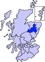 Aberdeenshire unitary council - Marr Area